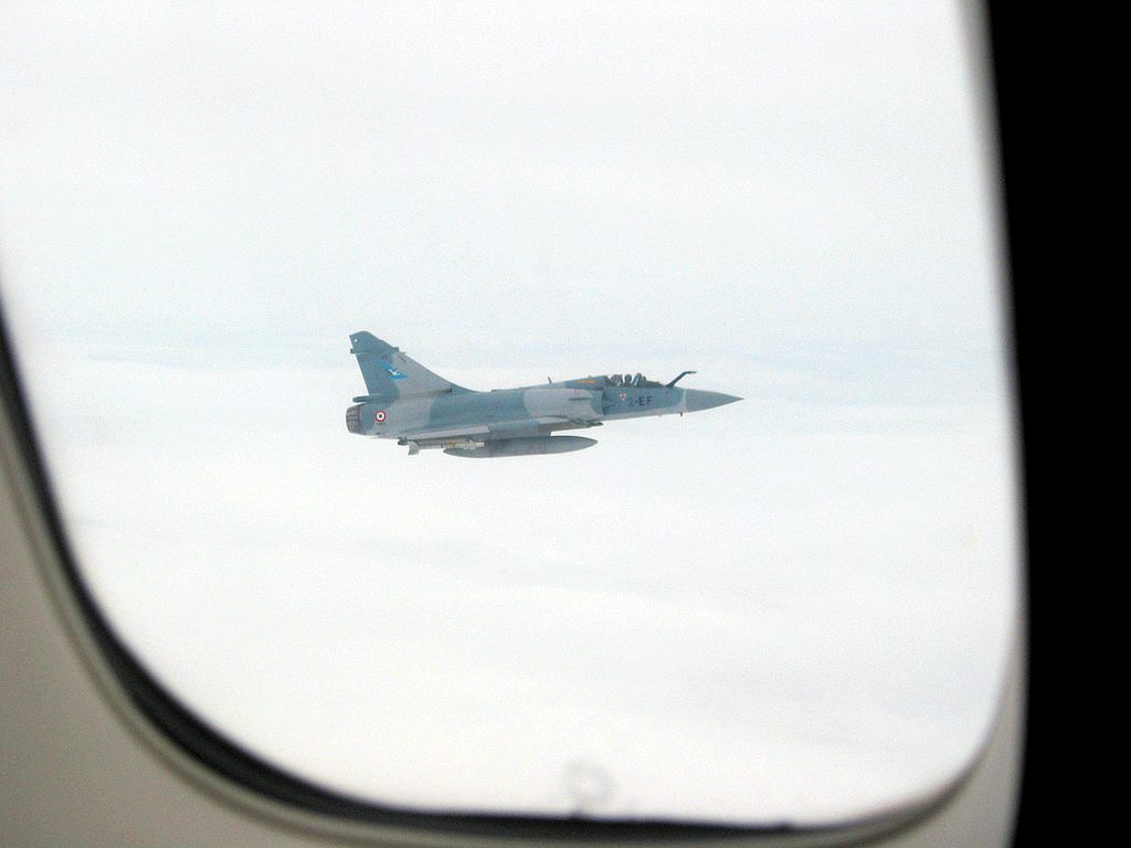 A french Mirage 2000-5F escorts a civilian jet during landing at Charles-de-Gaulle Airport in Paris, France.